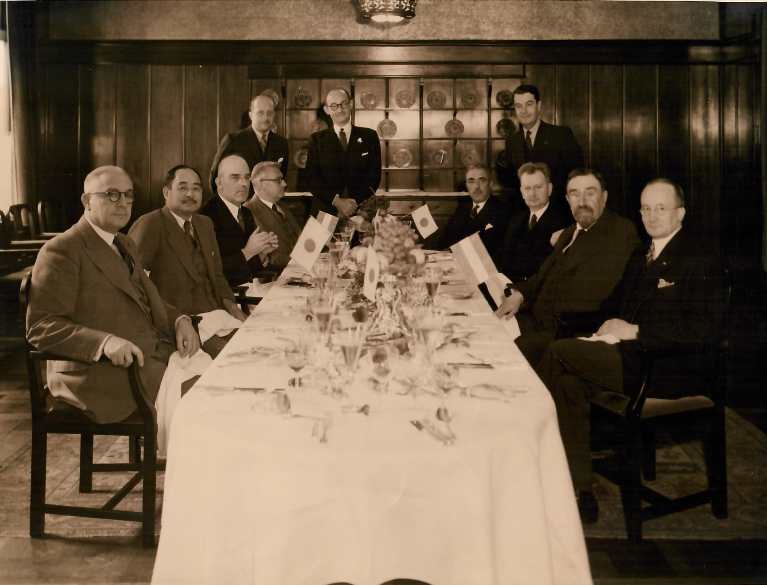 In 1937, Japan was in war with China (second Sino-Japanese war). That war could form a threat for the activities and assets of HVA in the region. The HVA directors tried to lobby in favor of the company and make an agreement with the Japanese conquerors. Eventually history turned against HVA and its factories were used by the Japanese as concentration camps.